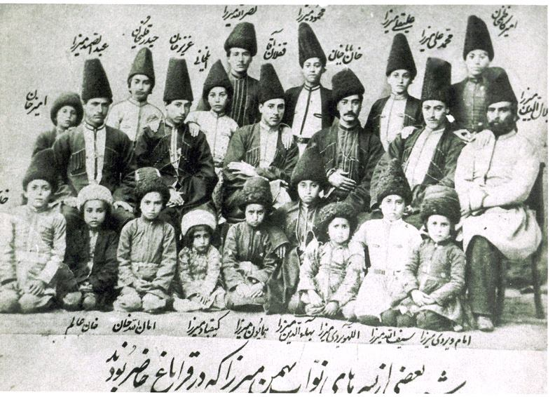 Bahman Mirza's senior sons at Shusha, Karabakh in 1869. Persian depiction: "Shebeh b'azi az pesarha-ye Nawab-e Bahman Mirza ke dar Qarabagh hazer budand" (Some of Prince Bahman Mirza's sons presented in Karabagh). First row (kneeling from left to right): Khan Jahan Mirza, Khan Alam Mirza, Amanollah Khan, Keyqobad Mirza, Homayun Mirza, Baha od-Din Mirza, Allahwerdi Mirza, Seyfollah Mirza, Emamwerdi Mirza. Second row (sitting): Abdol Samed Mirza, Aziz Khan, Qoflan Agha, Khan Baba Khan, Mohammad Ali Mirza, Jalal od-Din Mirza. Third row (standing): Amir Khan Mirza, Heydar Qoli Mirza, Ilkhani Mirza, Nasrollah Mirza, Mahmud Mirza, Ali Qoli Mirza, Amir Kazem Khan.